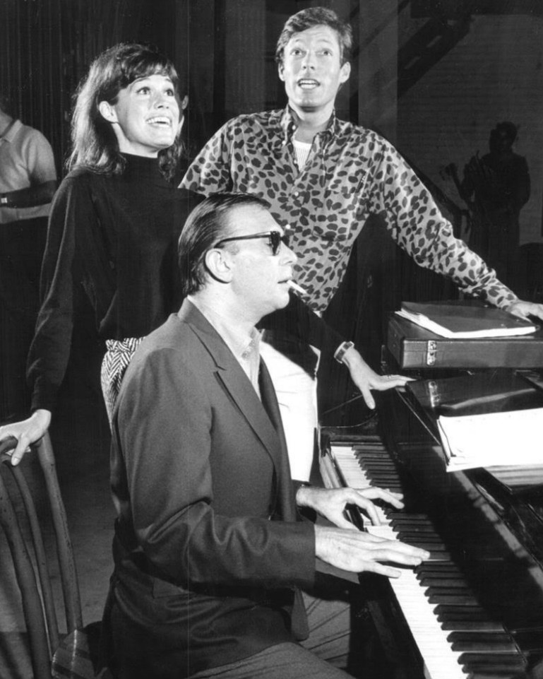 Photo of Mary Tyler Moore and Richard Chamberlain at rehearsal for the musical "Holly Golightly" (later called Breakfast at Tiffany's).